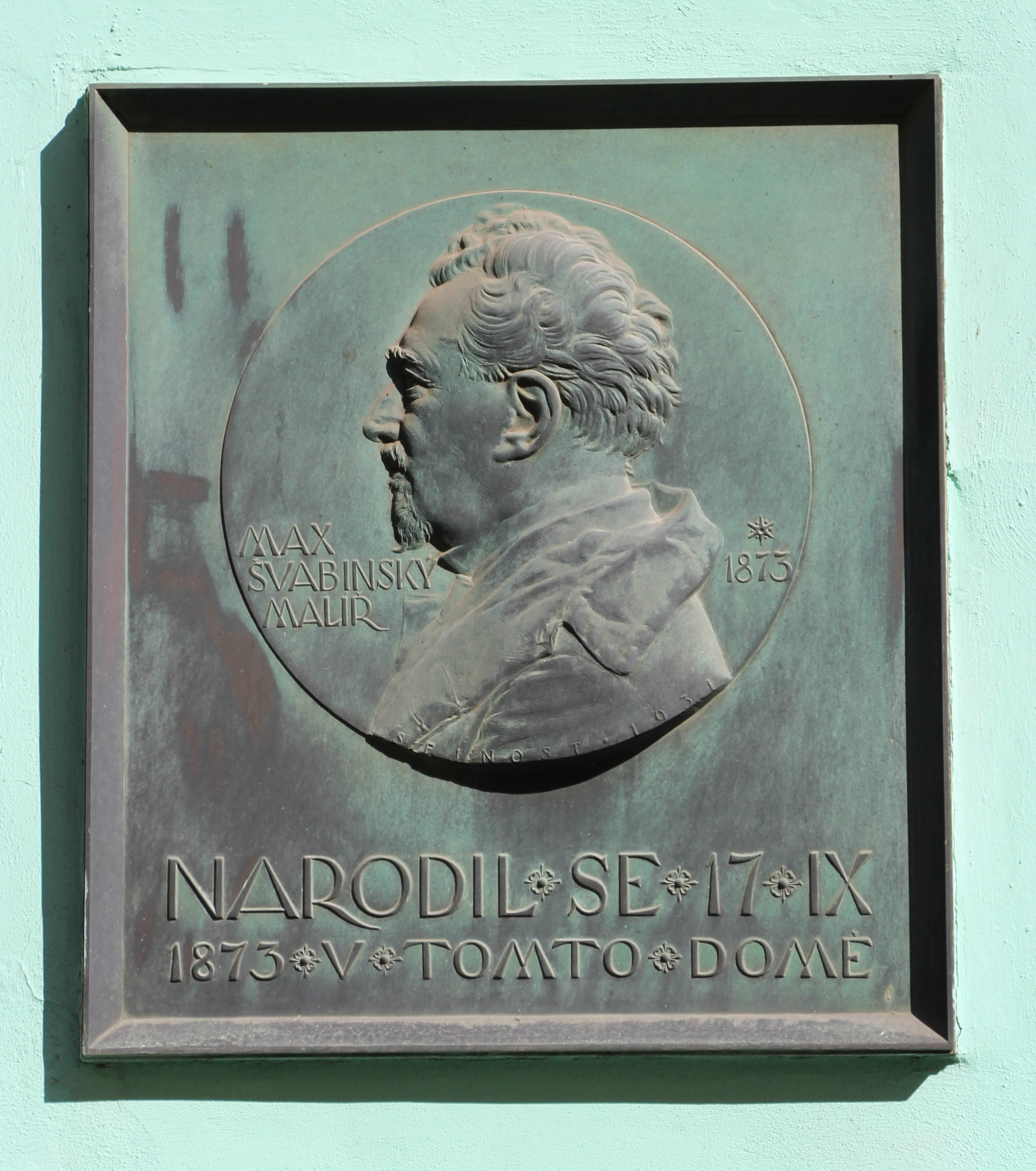 Max Švabinský birthplace, Kroměříž, Czech Republic